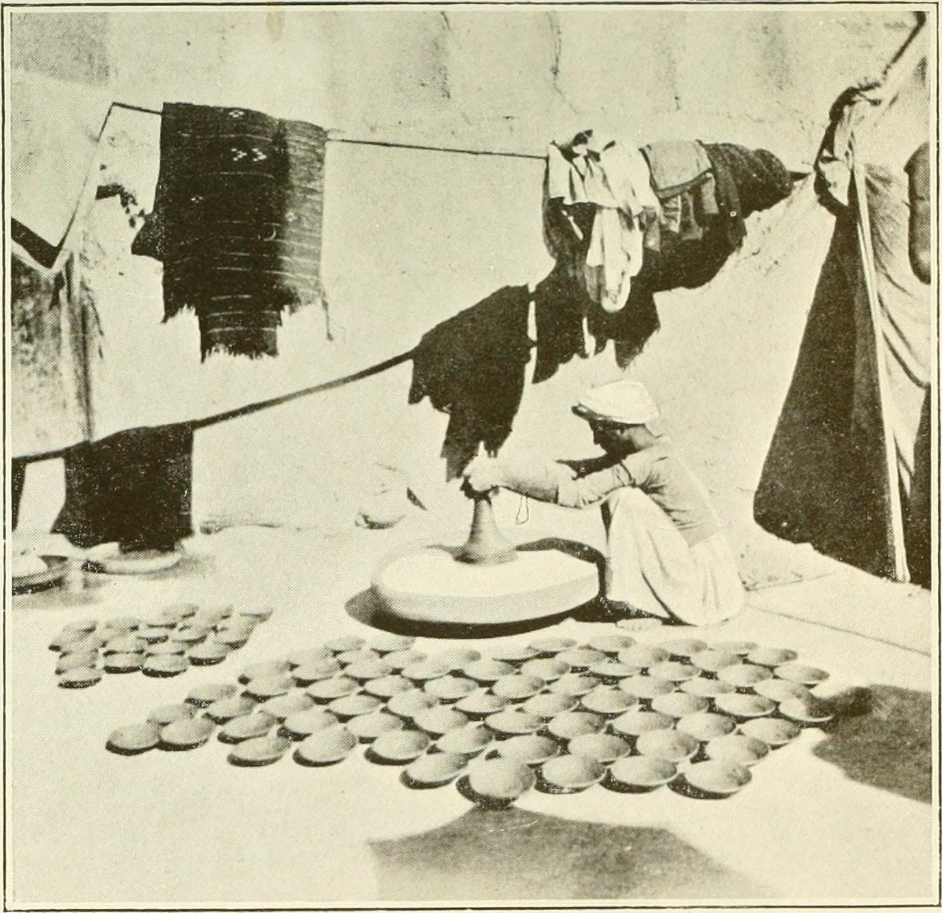 Identifier: indianpicturespr00malc Title: Indian pictures and problems Year: 1907 (1900s) Authors: Malcolm, Ian, Sir, 1868-1944 Subjects: India -- Description and travel Burma -- Description and travel Publisher: London : E. Grant Richard Text Appearing Before Image: fficers within the past two years, and haveparalysed, through fear, the native officials whosework for Government lies in their vicinity. Theyare the class of men who might, at any moment,make an expedition imperative, not so much forthe sake of punishing the murderers of Britishofficials (though that were justification enough) asin the cause of tranquillity throughout Waziristan ;for it must not be forgotten that injudiciouspardon and one-sided conciHation have never pro-moted peace. Indeed, the only emotion inspiredin the native breast by such misplaced generosityis always one of confidence that the Sirkar willsacrifice anything for the sake of avoiding war-fare. It was this delusion that largely contributedto the last Afridi war; when the tribes wereconvinced that a policy of murder and systematicaggression would drive the Government backwardto the Indus and not forward to the Durand line;that, although they blocked the Khyber Pass andattacked our military posts, we would never lao Text Appearing After Image: '